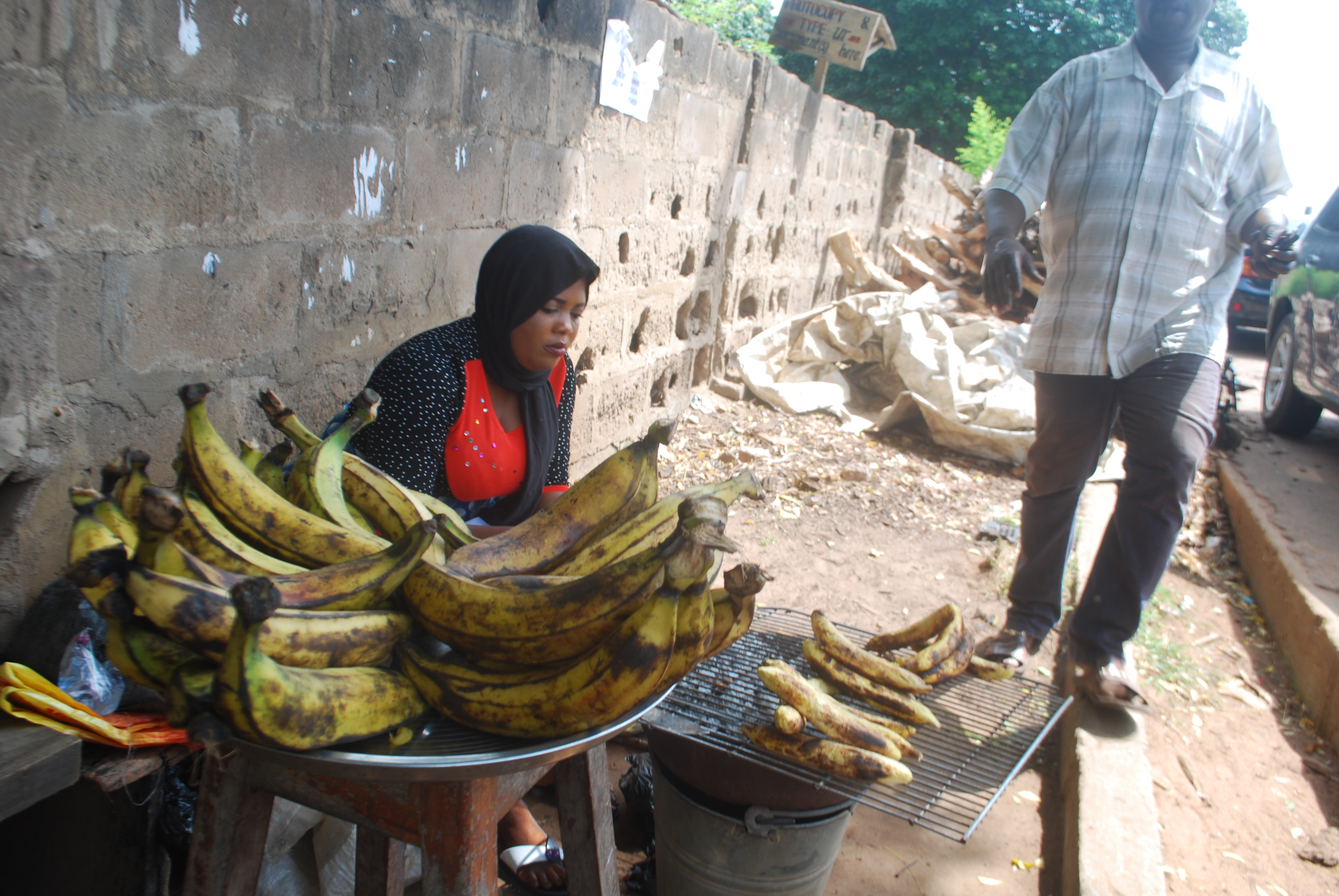 This is an image of "African people at work" from Nigeria